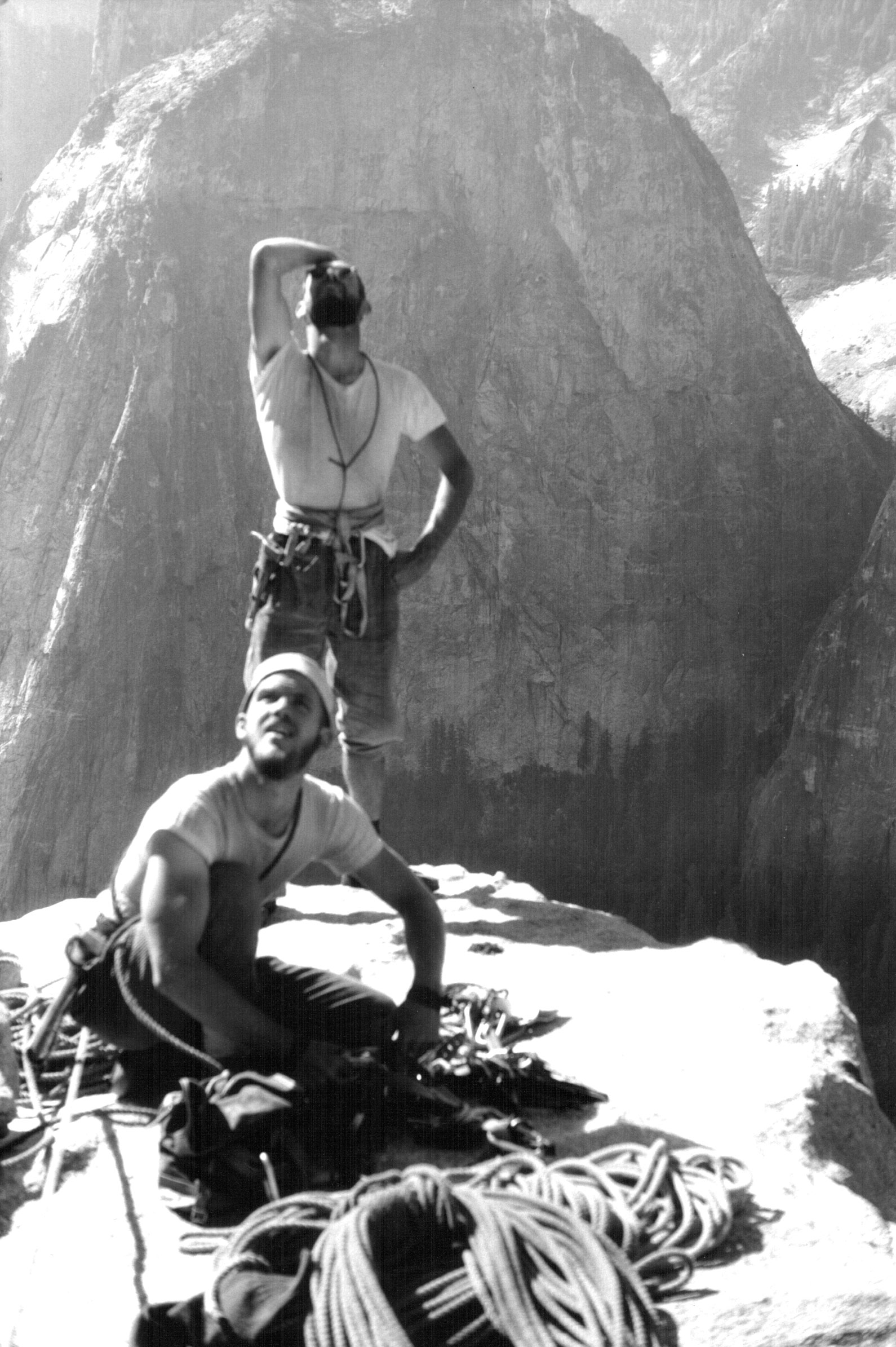 THE TWO GREATEST CLIMBERS of their generation, Chuck Pratt and Royal Robbins atop El Cap Spire, the Salathé Wall, El Capitan, Yosemite Valley, California. First ascent by Robbins, Pratt, and Frost, 9½ days, September 1961.